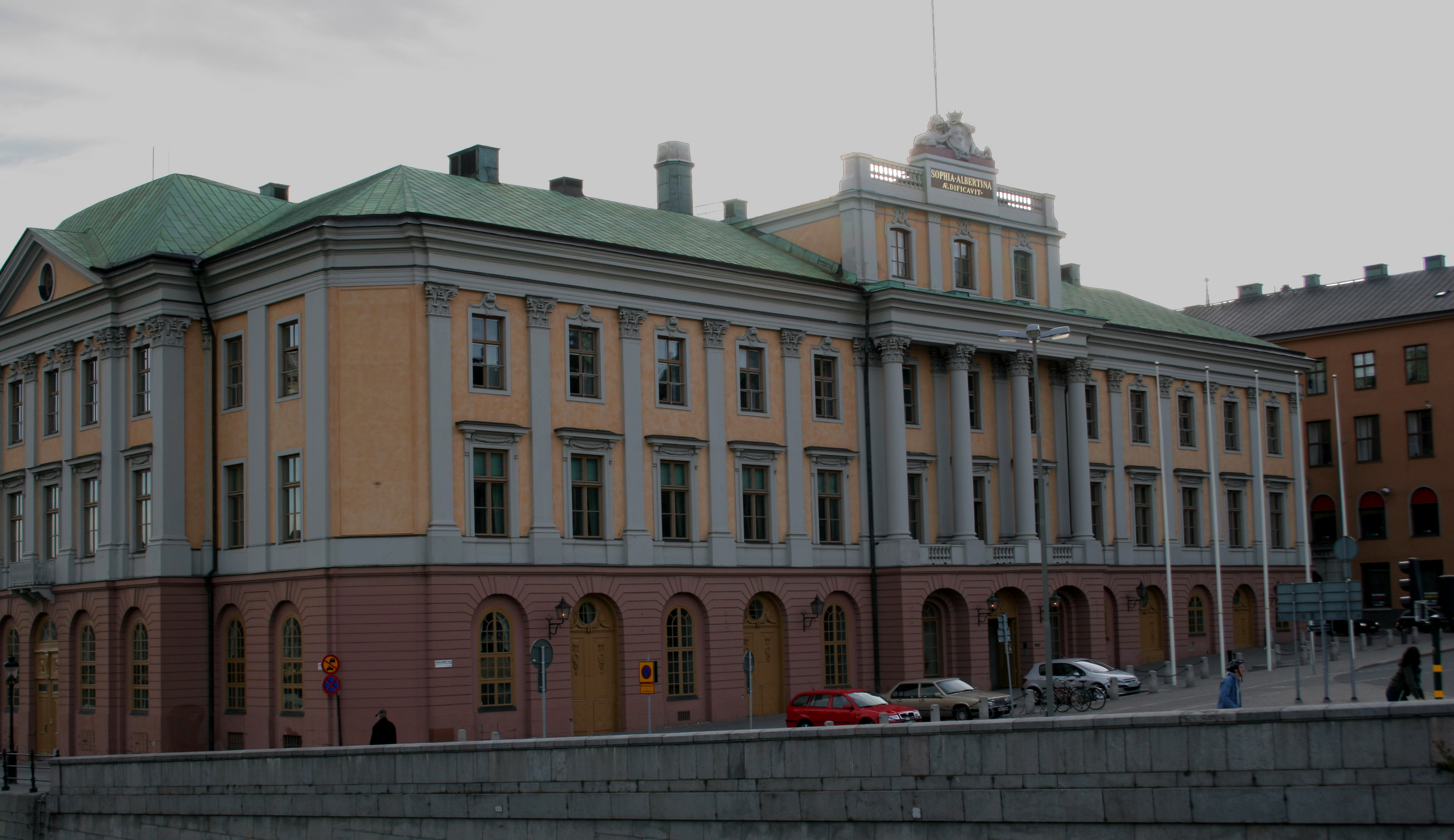 Arvfurstens palats, Gustav Adolfs torg, Stockholm, Sweden. The building where the Swedish foreign ministry resides.